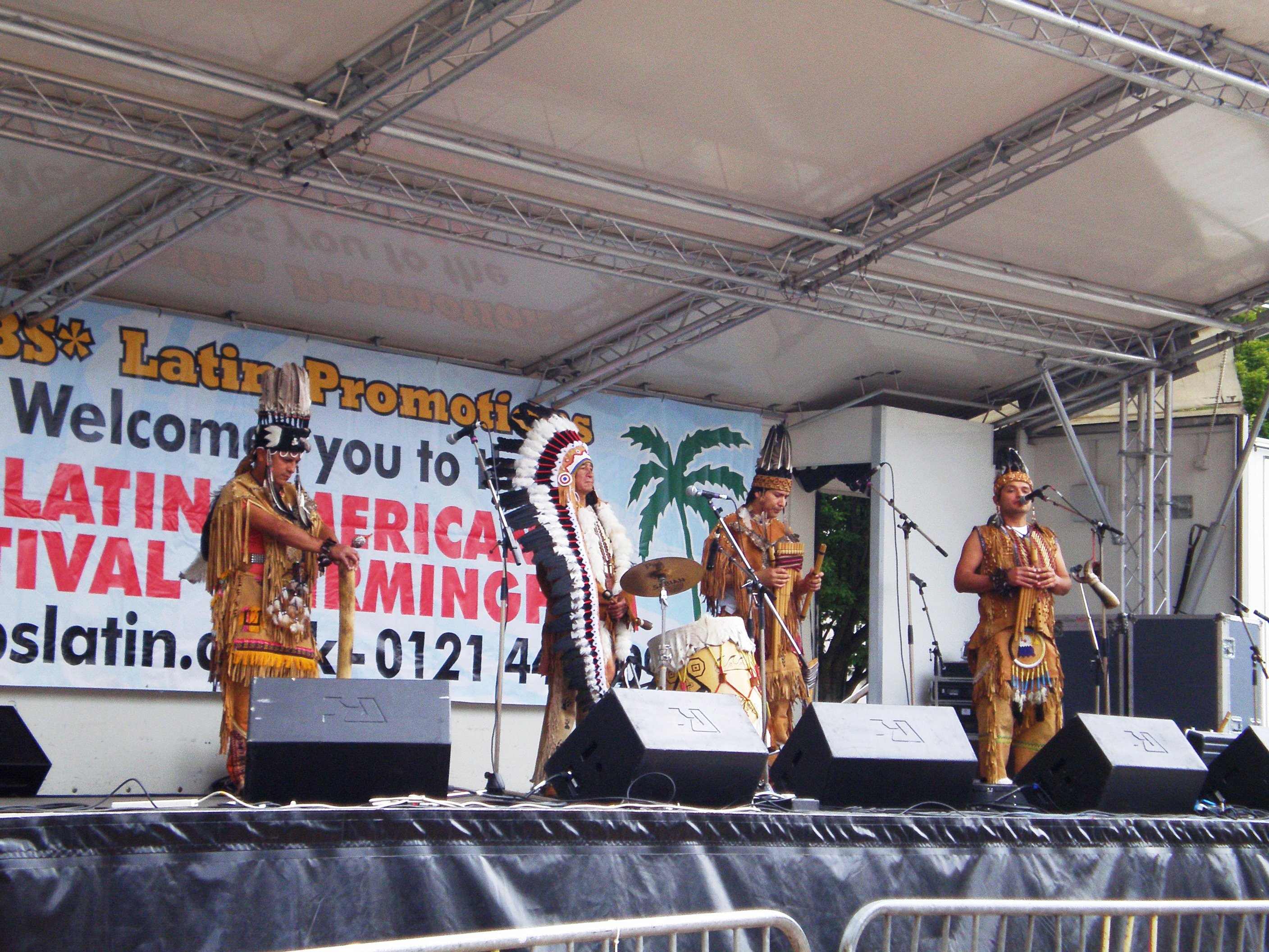 Peruvian group "Tribu del sol" in Birmingham Latina music festival 2008